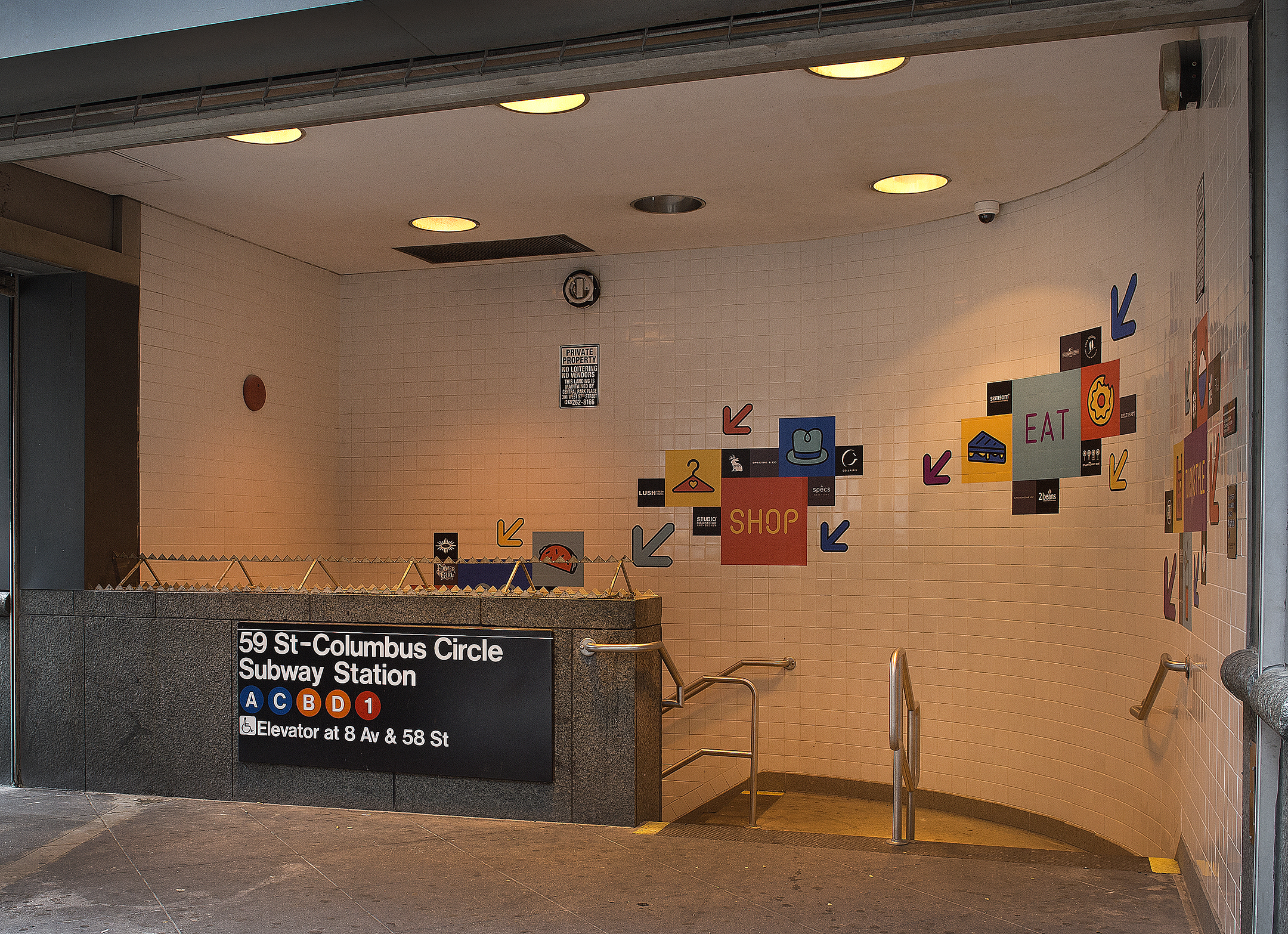 Underground eatery and retail shops, Turnstyle, opened at Columbus Circle subway station on April 19, 2016. Photo: Metropolitan Transportation Authority / Patrick Cashin